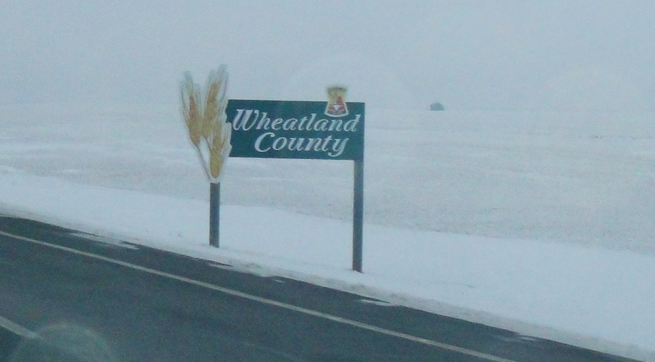 Welcome sign in Wheatland County, Alberta, Canada